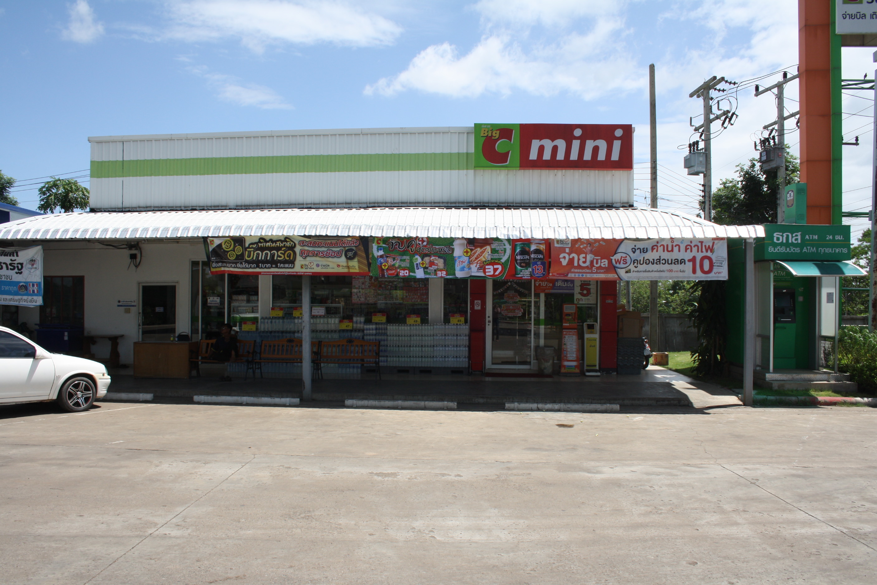 mini Big C at the PT petrol station on Highway 21, at Ban Khok Sa-at, Si Thep District, Phetchabun Province, Thailand